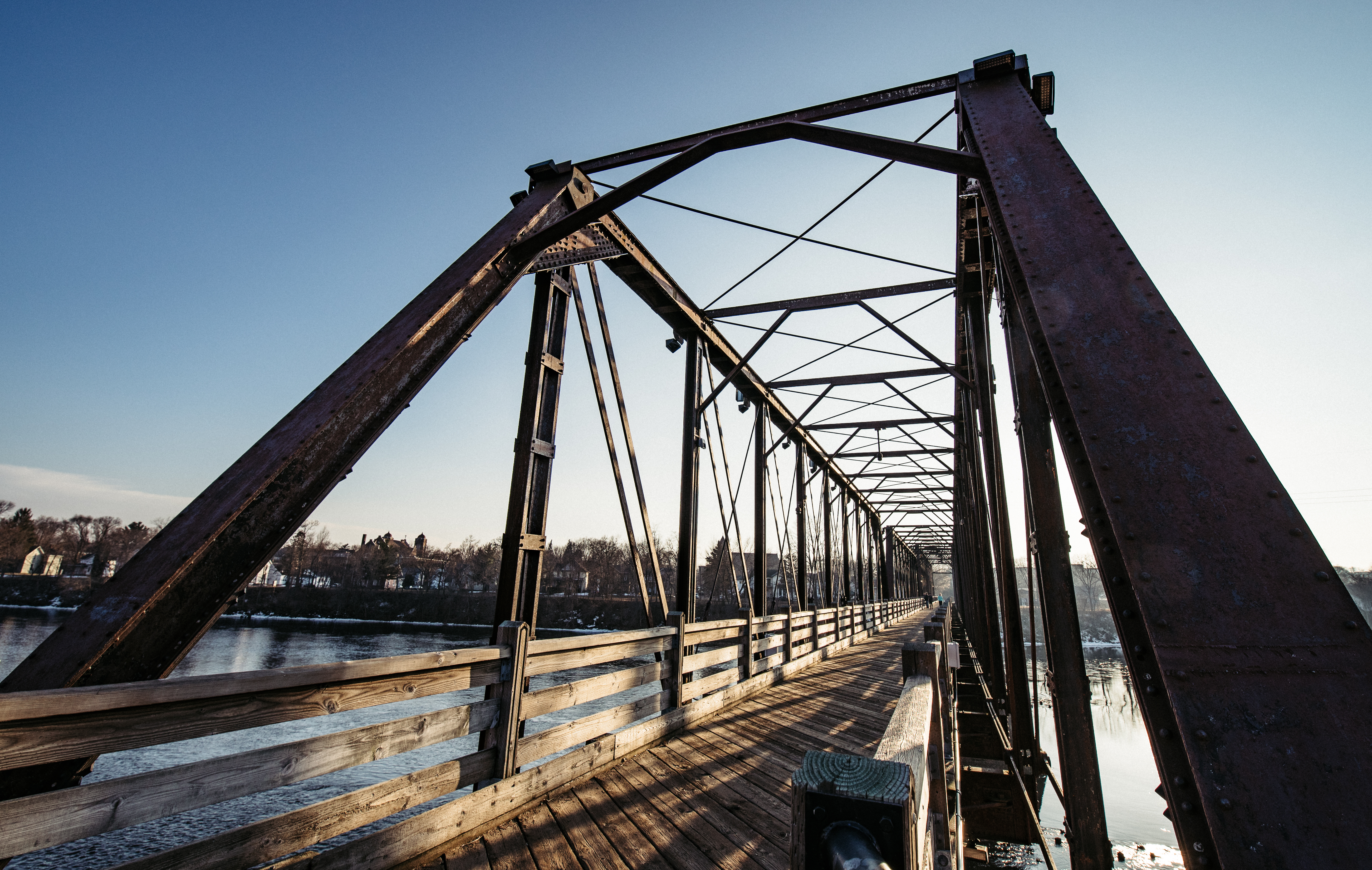 The Phoenix Park Trail Bridge carries the Chippewa River State Trail over the Chippewa River, as seen from Phoenix Park in Eau Claire, Wisconsin, a former rail bridge. (c) 2018 Tony Webster